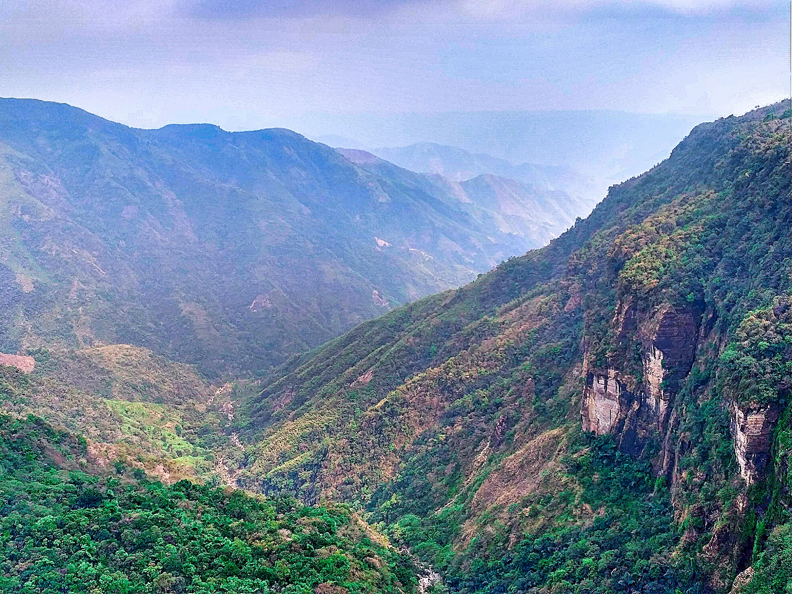 Shillong-Cherrapunjee Road